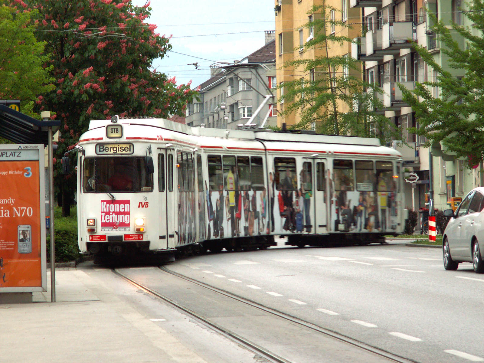 IVB tram car #85 as route STB at Haydnplatz station, Innsbruck)